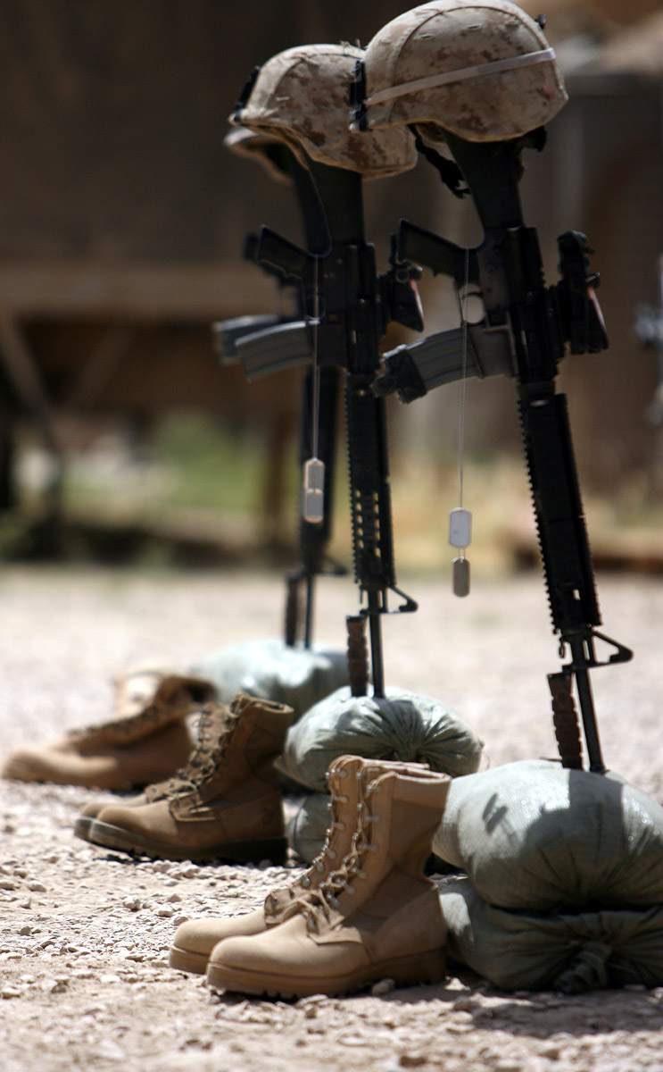 Three sets of service rifles, dog tags, combat boots and Kevlar helmets representing three fallen servicemen were rendered one final salute under the midday sun in Iraq�s blistering 100-degree weather. Two Marines and one sailor lost their life while conducting security operations in a village near the Iraq-Syria border. Their vehicle hit a mine on one of the regions dangerous roadways June 11, 2006. The three servicemen from Weapons Company, 1st Battalion, 7th Marine Regiment were given a memorial service June 14, 2006, at the outpost; Marines call them �battle positions,� where the men worked alongside Iraqi soldiers. Lance Cpl. Brent B. Zoucha, 19, a mortarman from Clarks, Neb., Lance Cpl. Salvador Guerrero, 21, a mortarman from Whittier, Calif., and Navy Hospitalman Zachary M. Alday, 22, a corpsman from Donaldsville, Ga., traveled in the same humvee together on numerous missions, weeding out insurgents in Iraq�s western Al Anbar Province. The Twenty-nine Palms, Calif.-based Marines, partnered with an Iraqi Army unit, have spent nearly three months now conducting counterinsurgency operations in this region and mentoring their Iraqi counterparts to become a self-sustaining force.